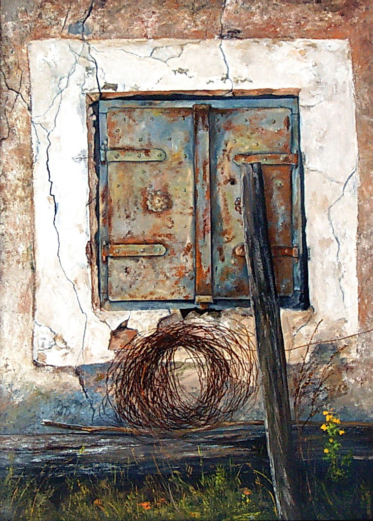 Nightfalls by Balázs Boda 2005. 40x50cm, oil, wood panel